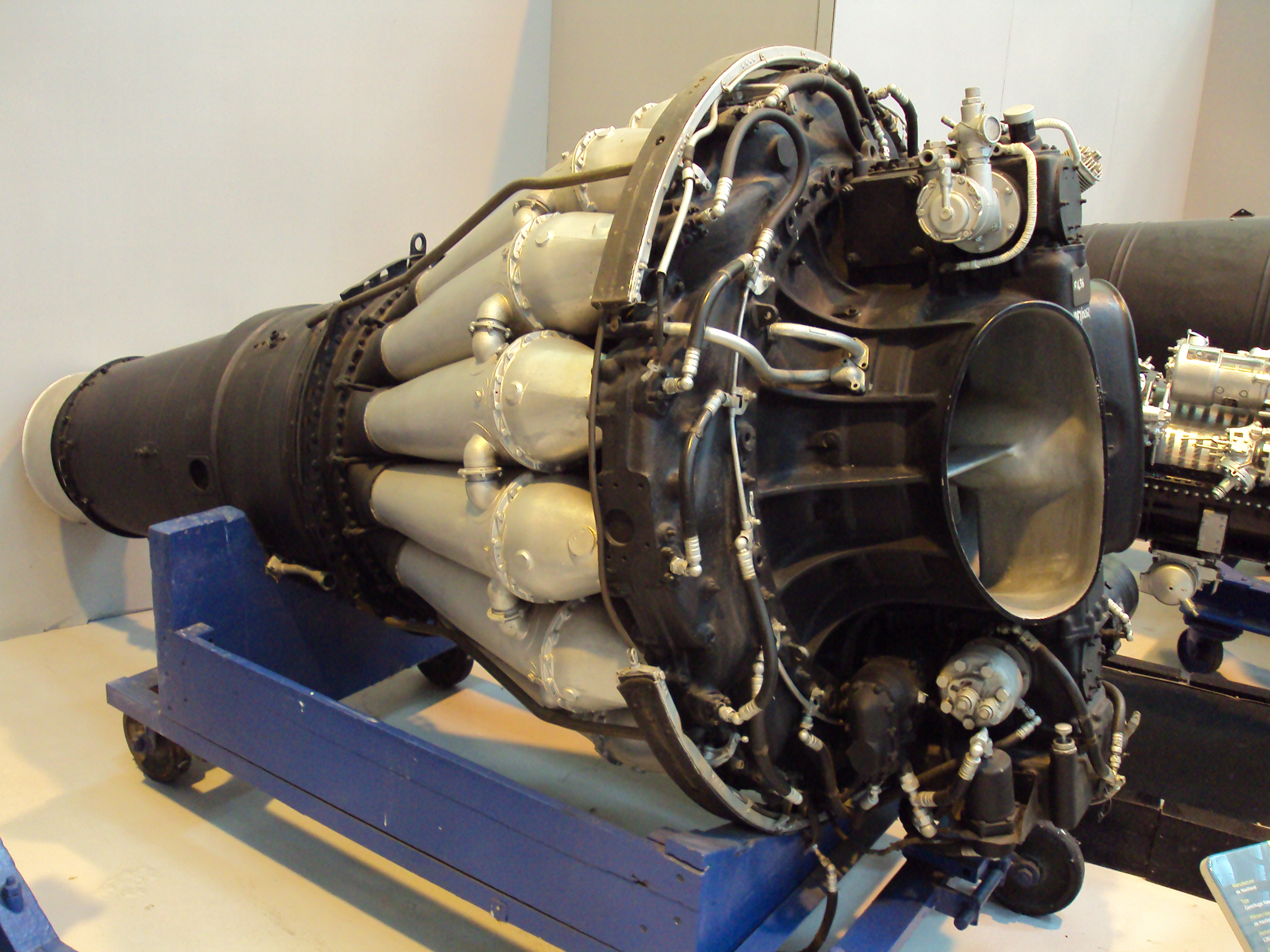 De Havilland Goblin 2 turbojet aircraft engine. Photo taken at the RAF Museum Cosford, Shropshire, England.